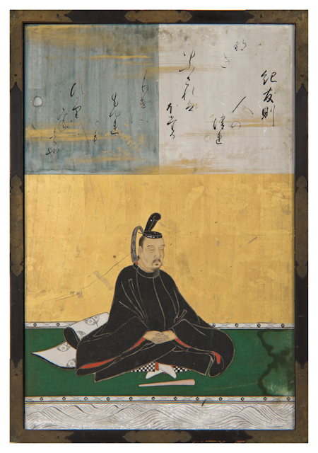 Sanjūrokkasen-gaku (Thirty-six Poetry Immortals framed picture) #10: Ki no Tomonori